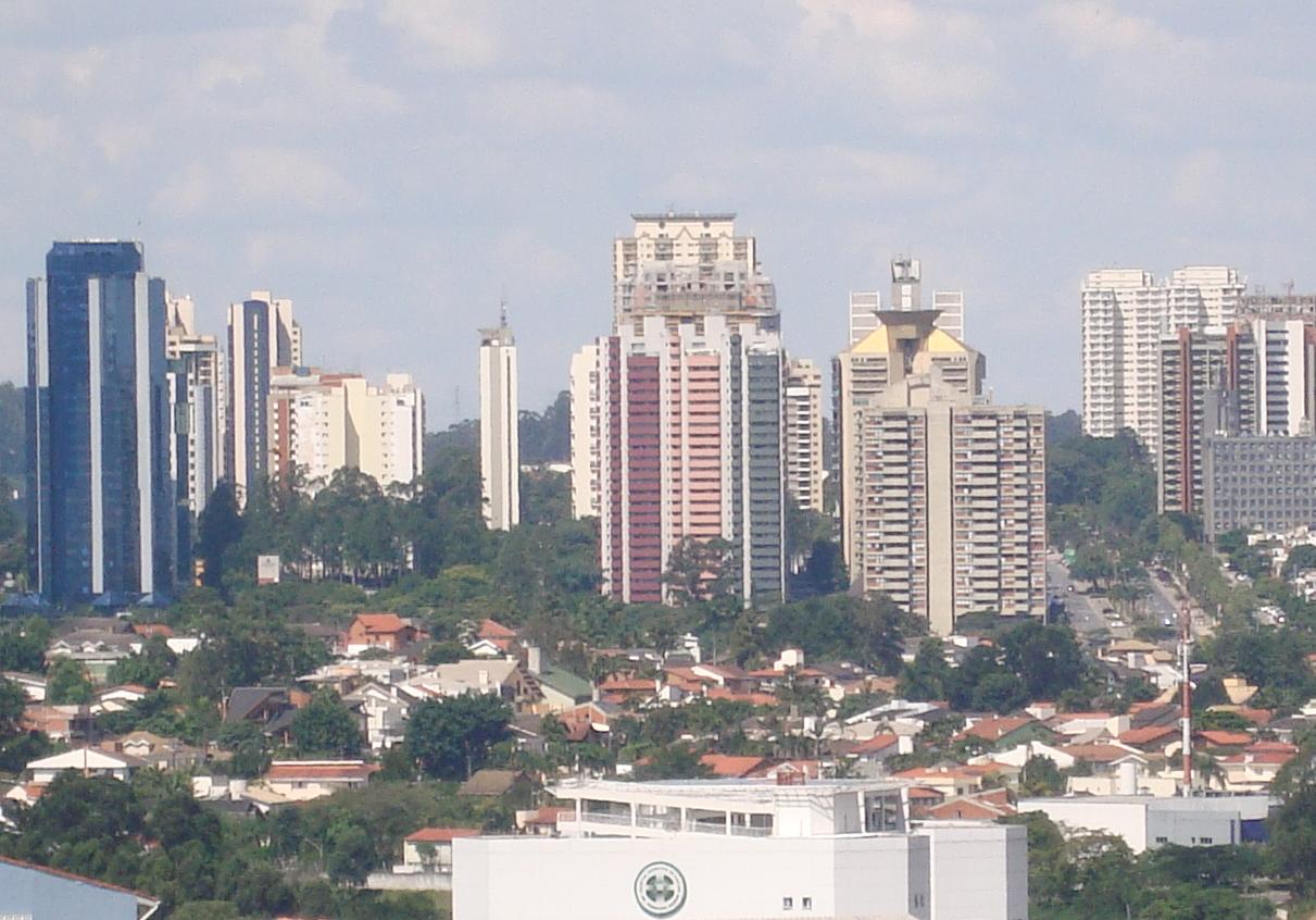 Alphaville